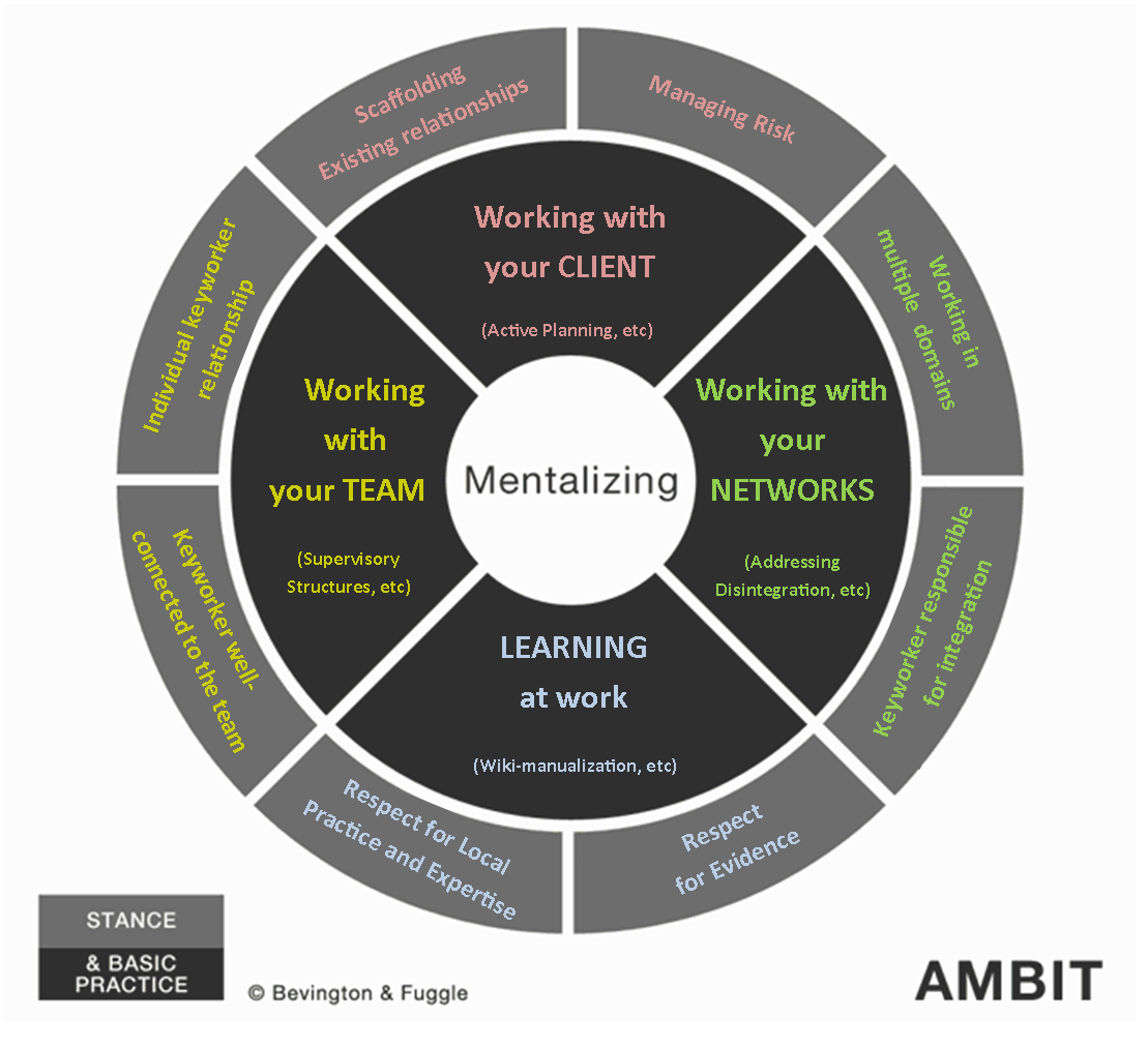 This is an updated version of the original AMBIT "wheel" that summarises the therapeutic and organisational approach of AMBIT - updates occur in relation to systematic feedback from field implementations, and are an example of the "open source" approach to developing effective ways of working with hard to reach, complex, high risk youth. See Adolescent Mentalization-Based Integrative Treatment.